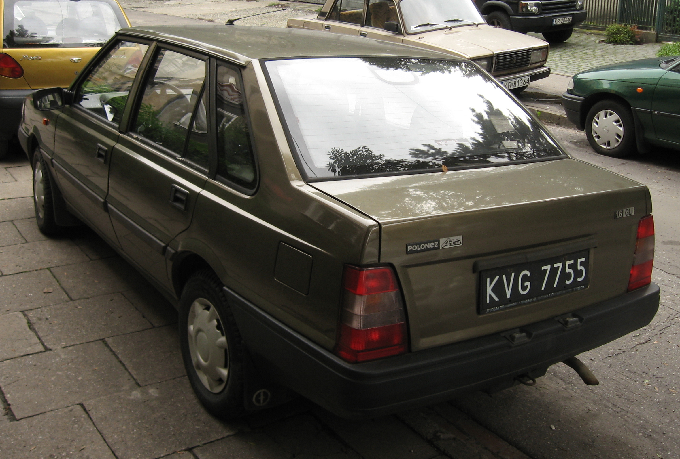 FSO Polonez Atu 1.6 GLI car in Kraków, Poland.